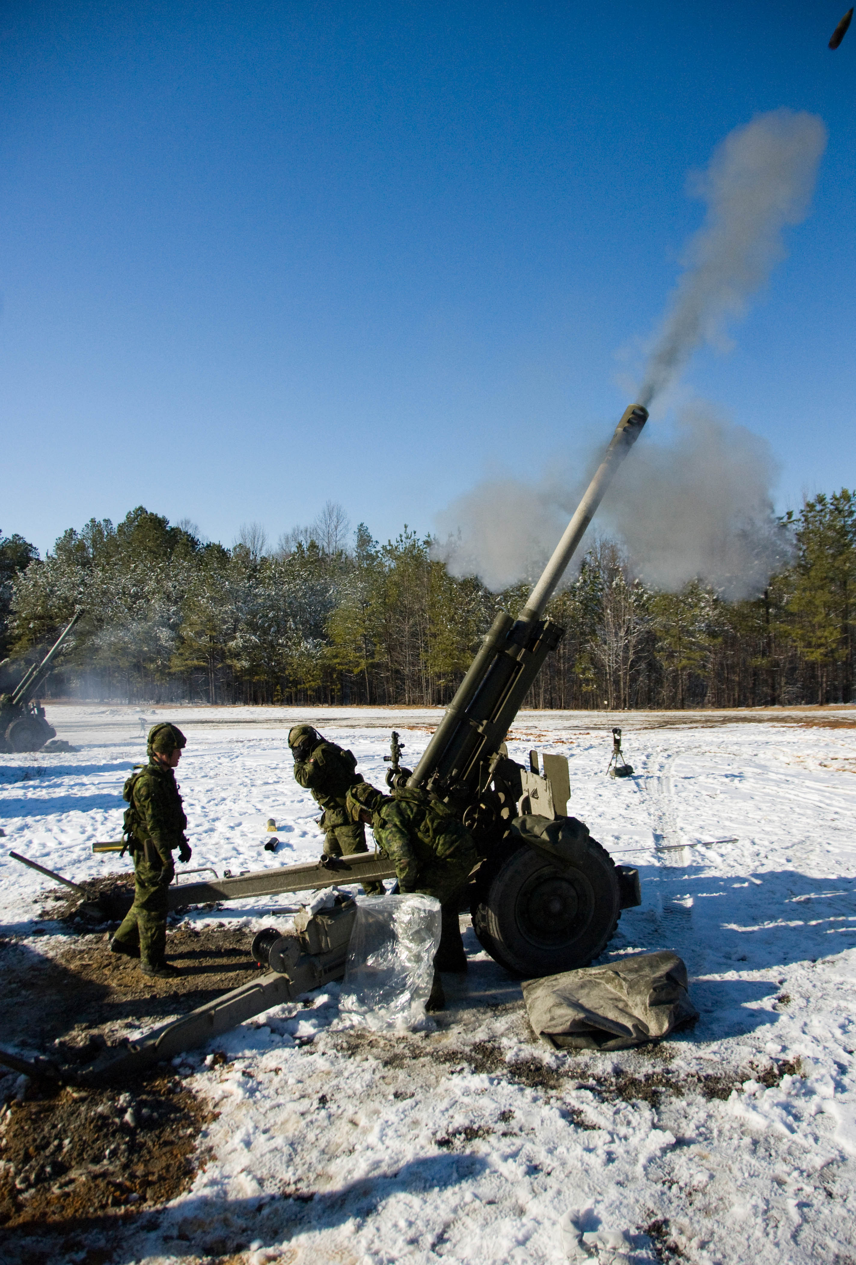 Canadian soldiers from the 1st and 3rd Field Regiments fire a 105 mm high explosive round with a C3 howitzer March 3, 2009, during Exercise Maritime Raider 09 at Fort Pickett, Va.